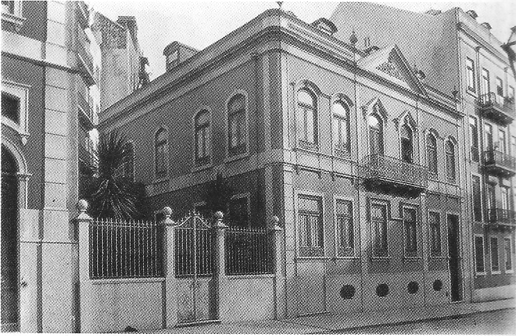 House of Maria Amália Borges on Maria Street where was located the first school that applied Freinet's techniques in Portugal